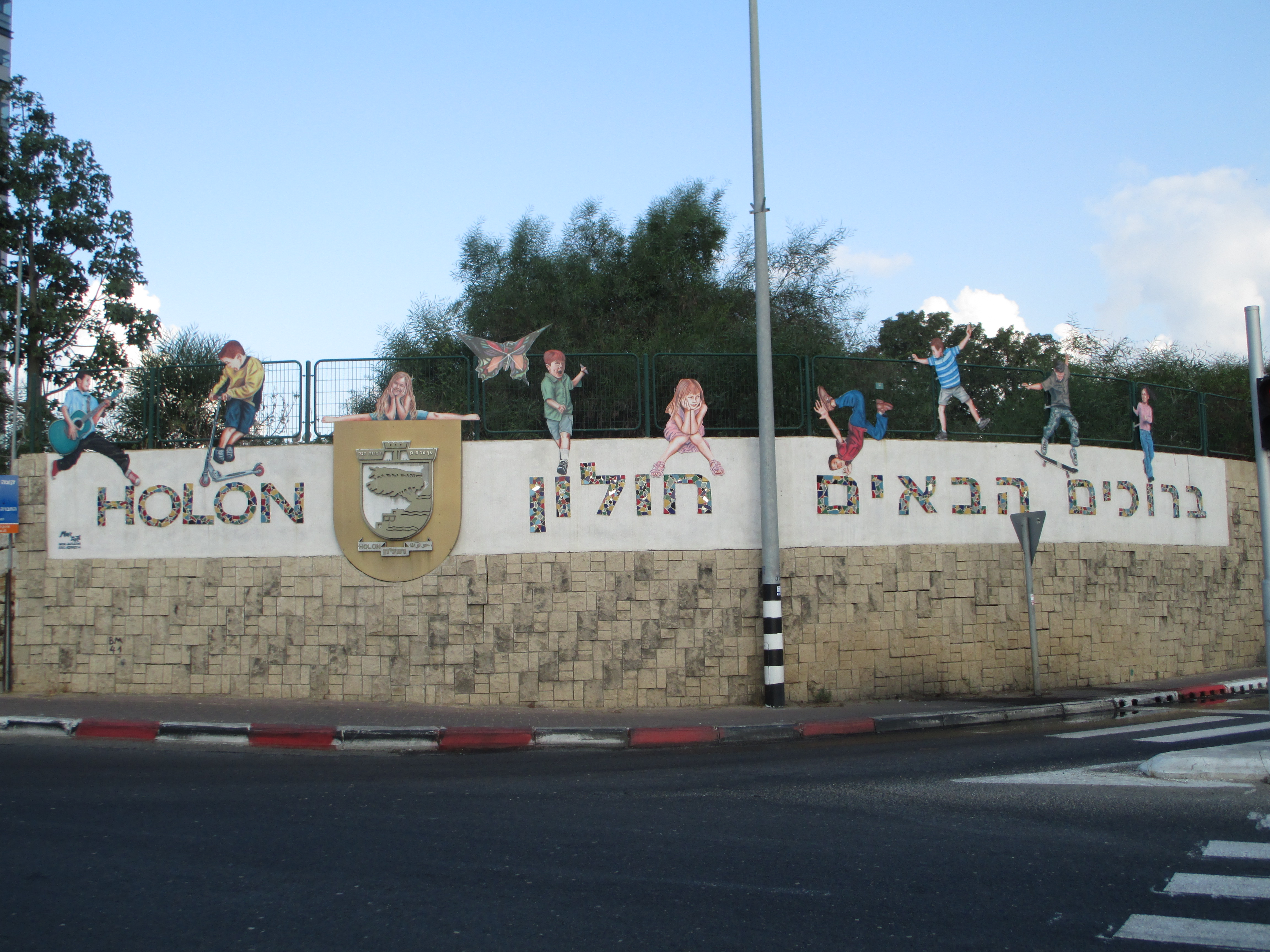 Entrace to Holon